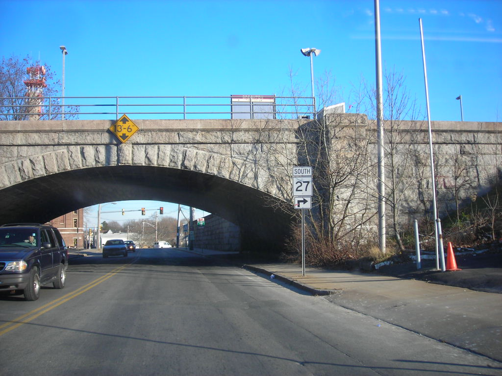 Brockton station is located partially on this viaduct over Massachusetts State Route 27